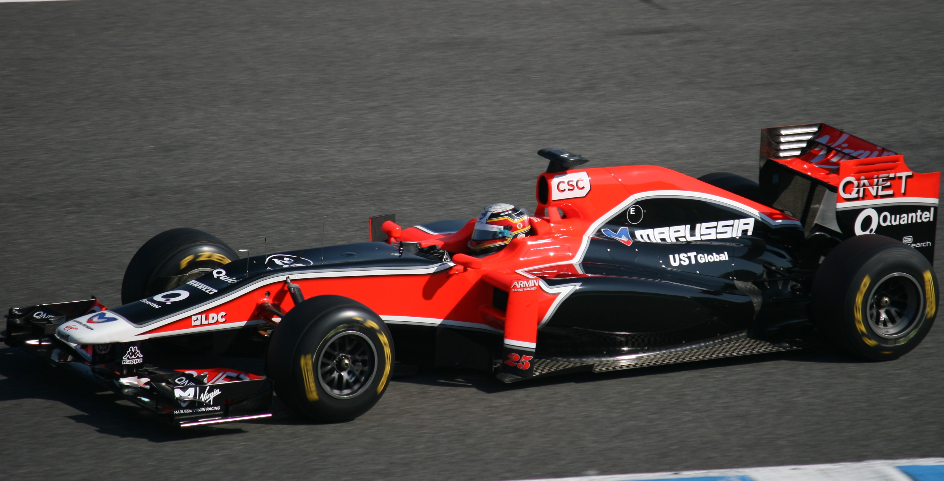 Jerome d'Ambrosio Virgin MVR-02